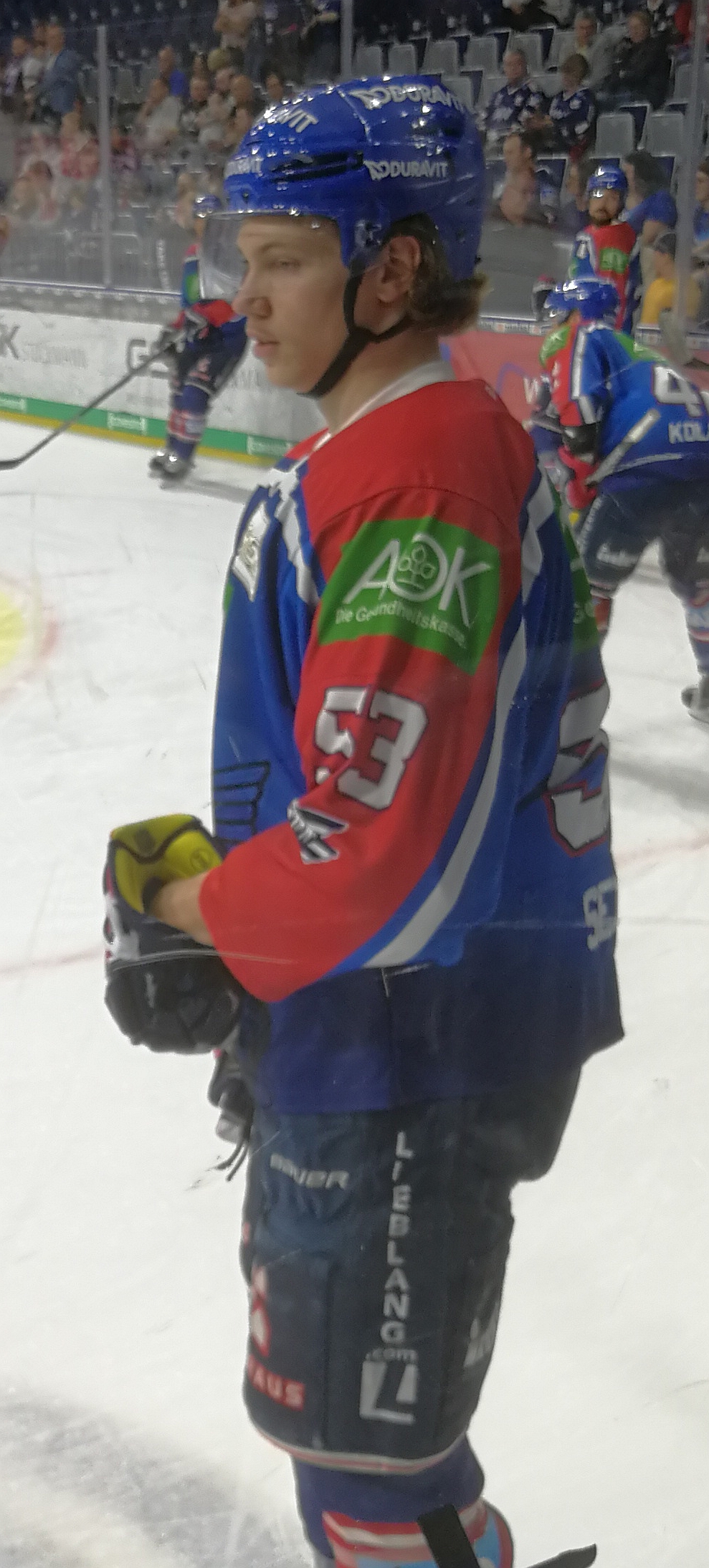 Moritz Seider, Ice hockey player, defender, Adler Mannheim